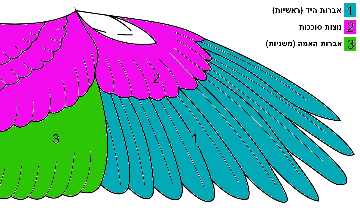 Feather Sketch of a Bald Eagle